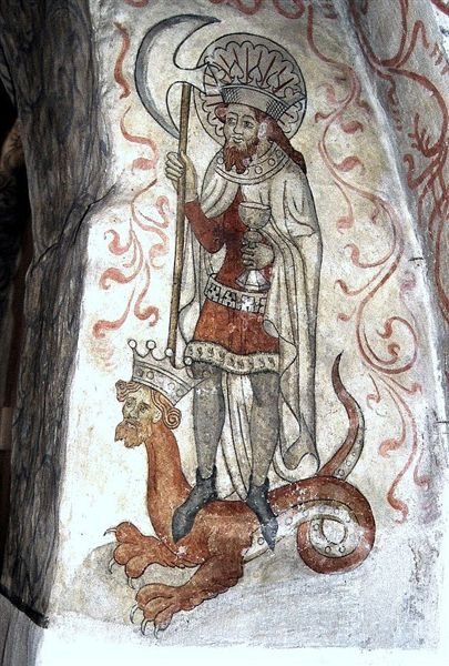 Frescoes by The Isefjord Master from apr. 1460-1480 in Tuse Kirke (church)